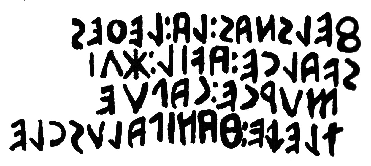 Felsnas Laris, (son) of Lethe, lived 106 years, lived in Capua, fought (?) for (or against) Hannibal.